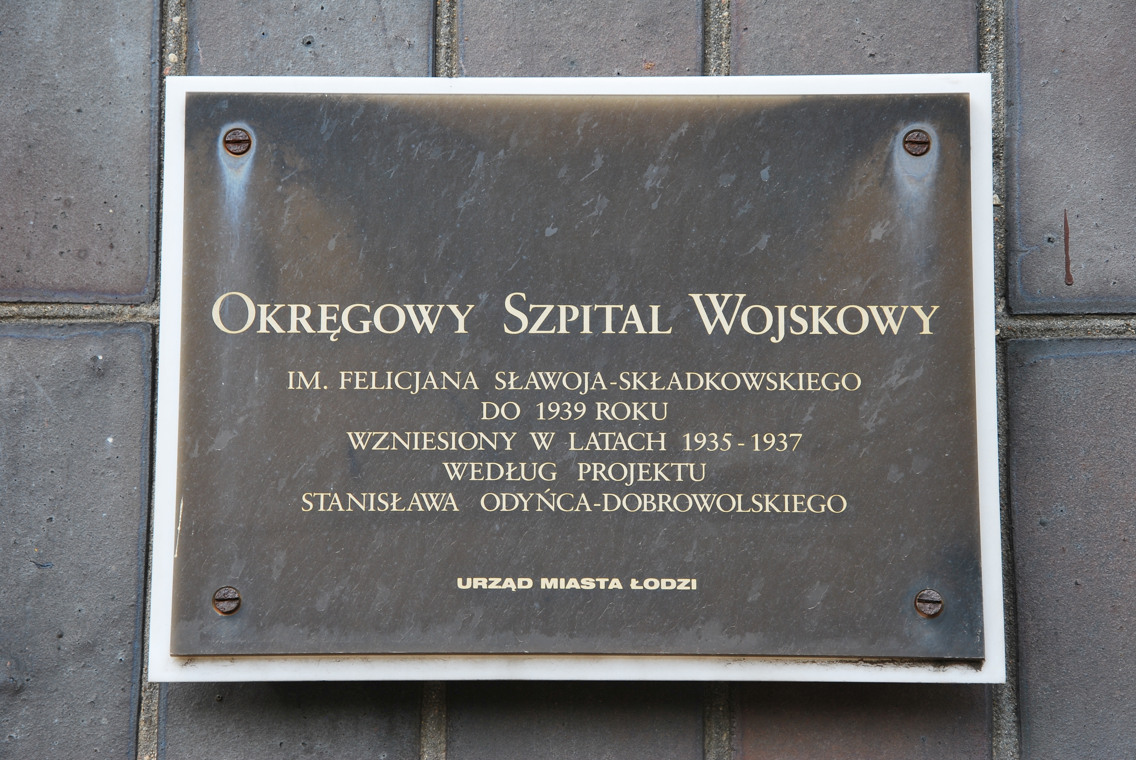 Central Veterans' Hospital in Lodz plaque